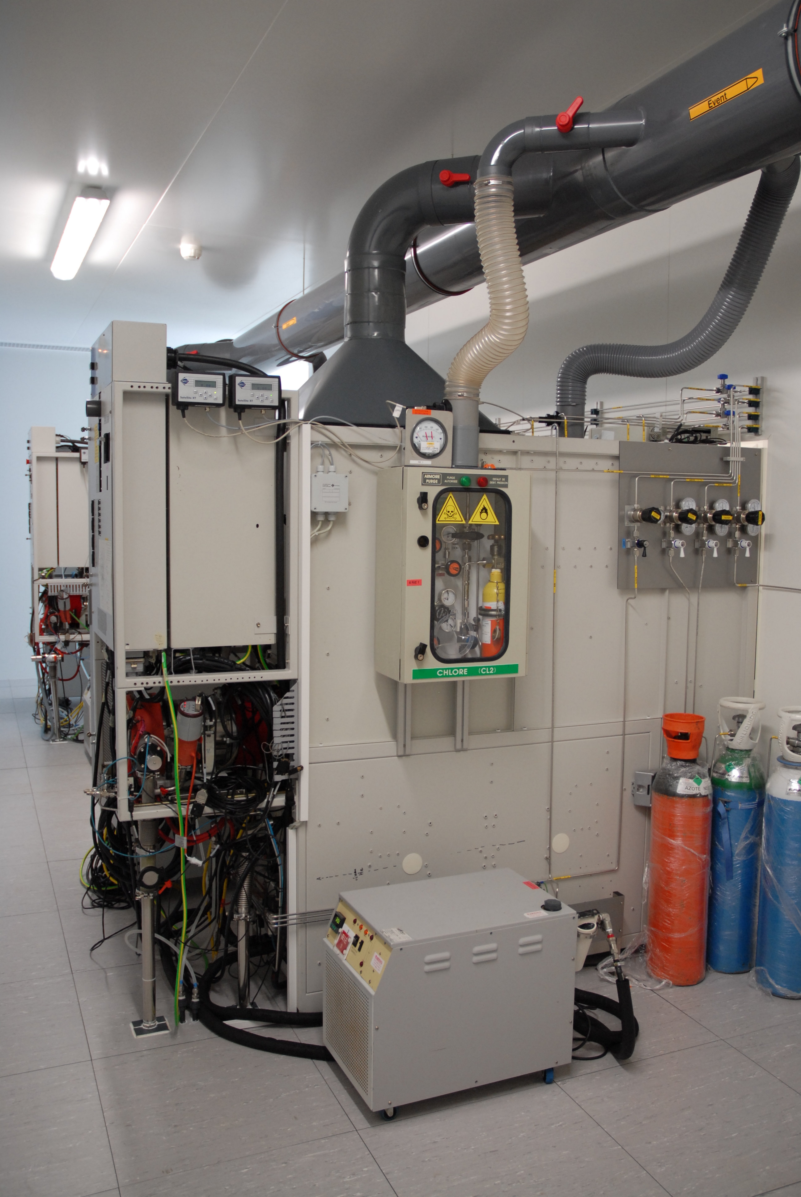 Reactive-ion etching system back end at LAAS-CNRS technological facility in Toulouse, France.